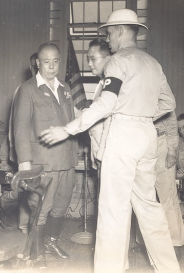 General Tomoyuki Yamashita just after he heard the verdict of death by hanging. He was taken out of the courtroom by military police.